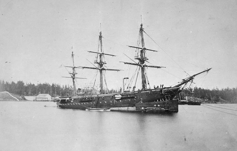 Photograph of British Pearl class screw corvette HMS Charybdis at Esquimalt, BC, Canada.